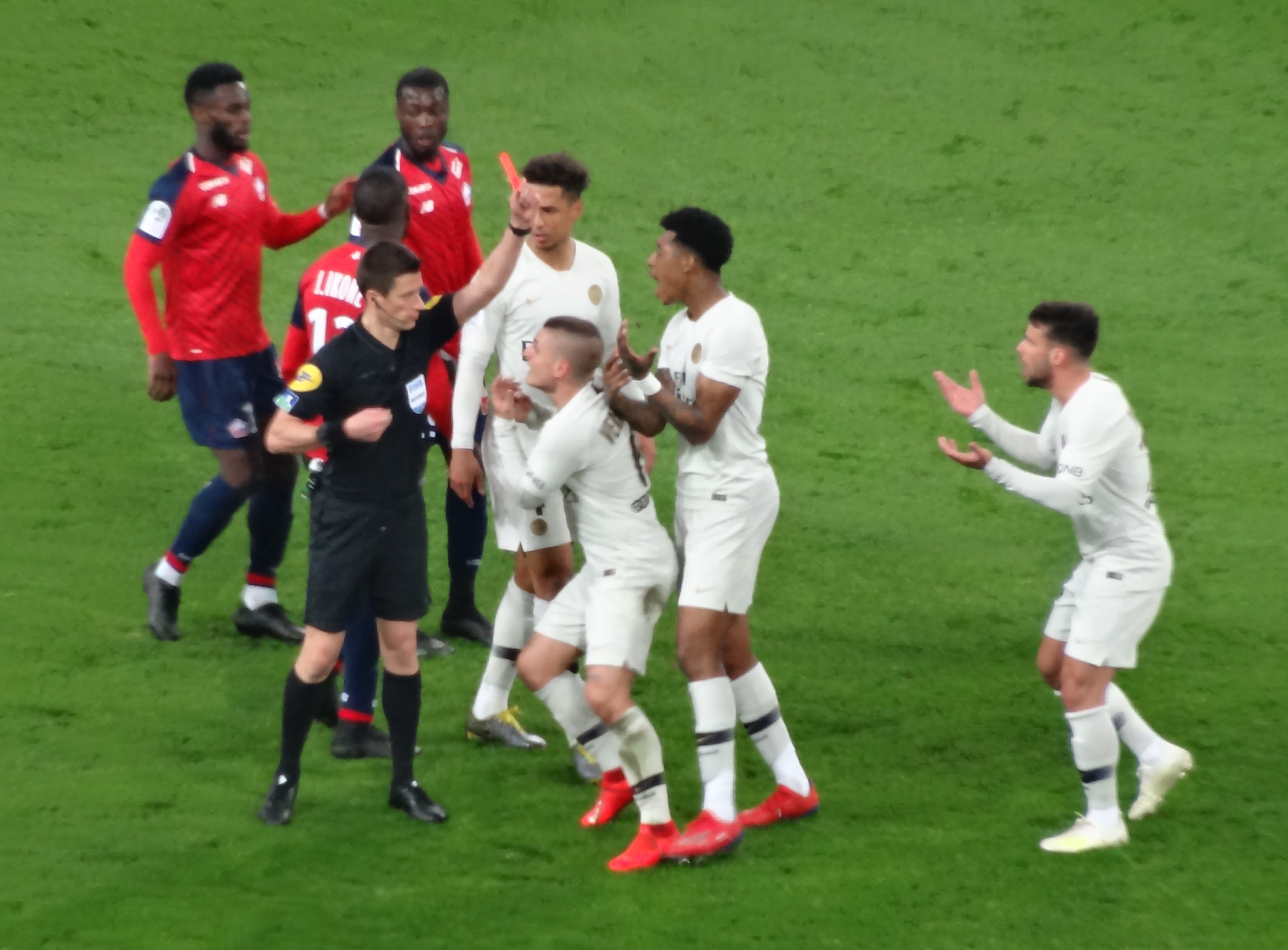 Lille vs PSG 2019